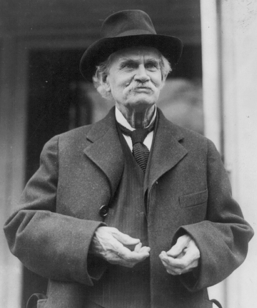 American politician John Sharp Williams (1854-1932)